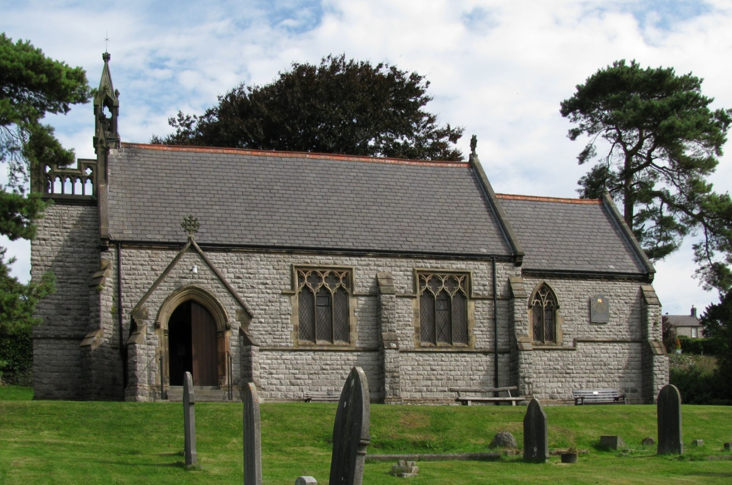 St Anne's parish church, Over Haddon, Derbyshire: view from the south